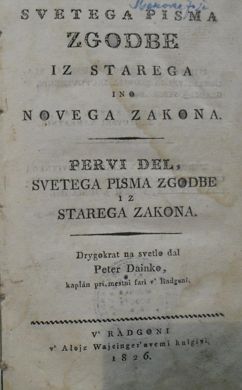 Peter Dajnko: Svetega pisma zgodbe iz starega ino novega zakona (Bible's storys from the Old and New Testament), book in Styrian Slovene language in Dajnko-alphabet from 1826.